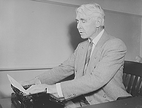 Poet and historian turns to films. Carl Sandburg is shown here as he was writing the commentary for "Bomber," nation defense motion picture just completed by the Office of Emergency Management (OEM) film unit. Mr. Sandburg is famous as the Pulitizer prize winning author of "The War Years", monumental biography on Abraham Lincoln, and as the author of numerous poems and other works. Mr, Sandburg is also famous as a musician, newspaper columnist and authority on Americans. The commentary for "Bomber" was his first excursion into film making. He volunteered his services to the defense program and served without pay